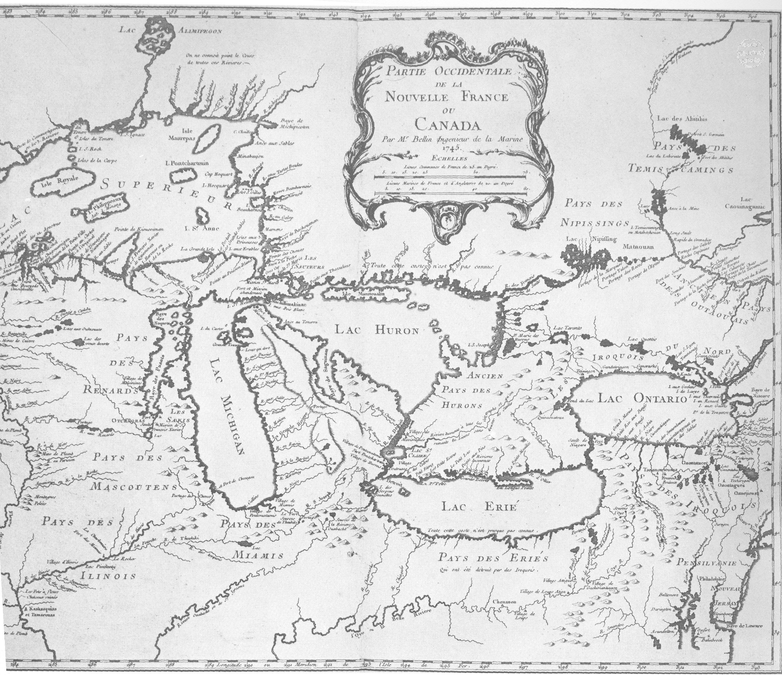 Maps of the Great Lakes region under the New France administration.